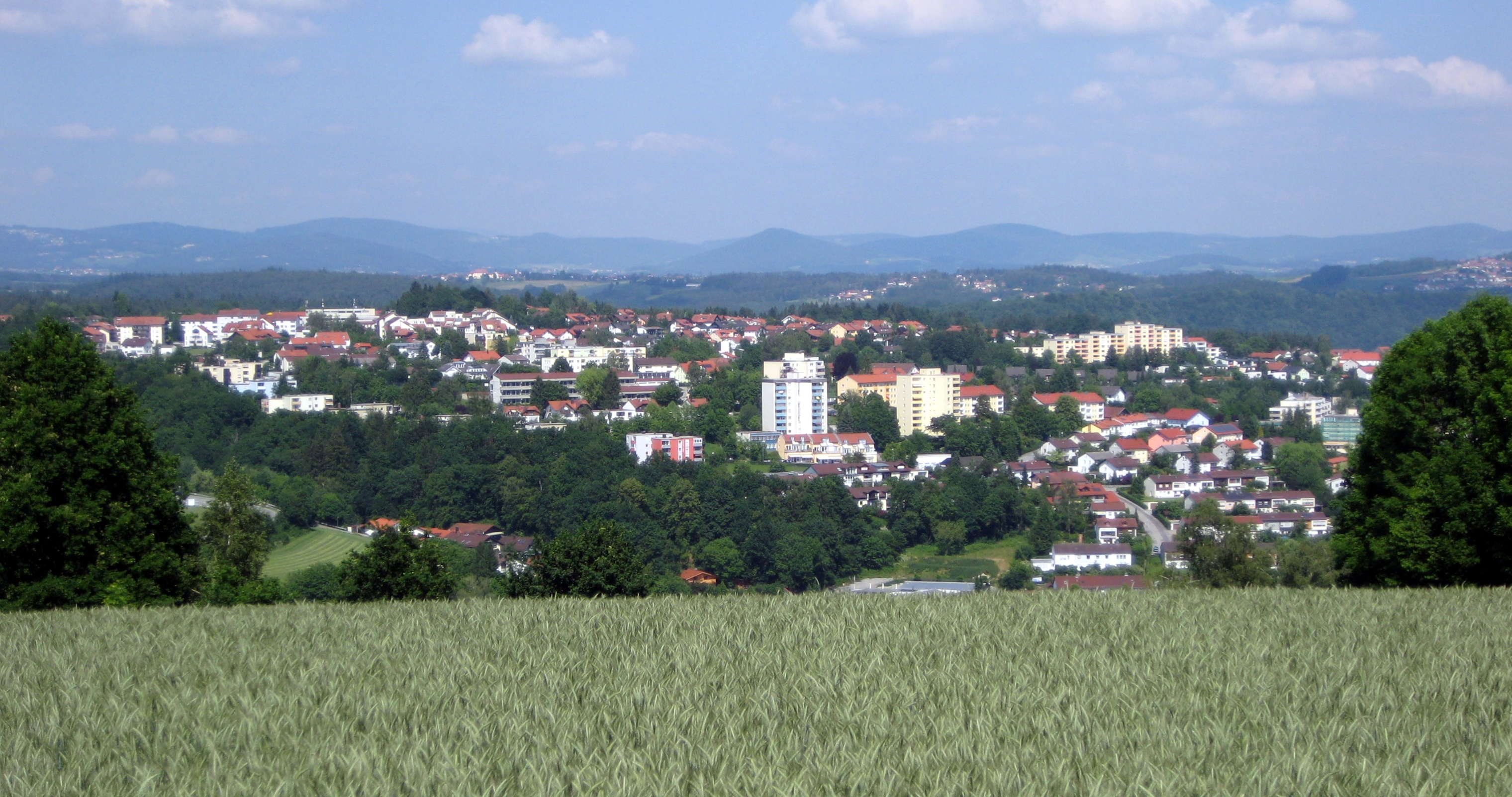 District Grubweg of Passau